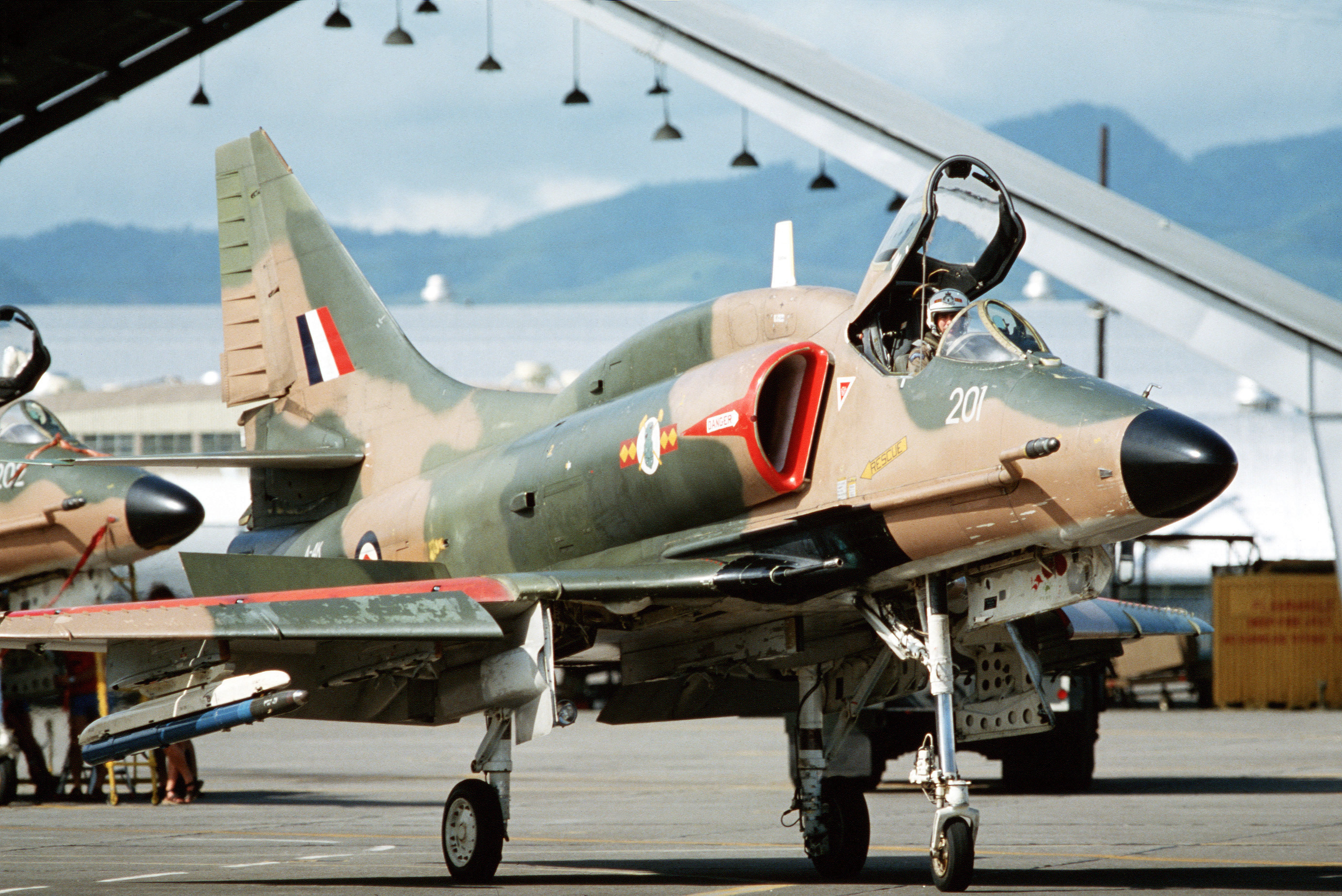 A Royal New Zealand Air Force Douglas A-4K Sykhawk (s/n NZ6201) from No. 75 Squadron on the flight line at Clark Air Base, Philippines, during the air combat training exercise "Cope Thunder '83-1" on 1 November 1982. The A-4K NZ6201 was produced with the U.S. Navy BuNo 157904. Completed on 10 November 1969, it arrived in Auckland (New Zealand) on 17 May 1970 aboard the USS Okinawa (LPH-3). It was finally retired at Woodbourne (NZ) for stoarage on 17 December 2001.